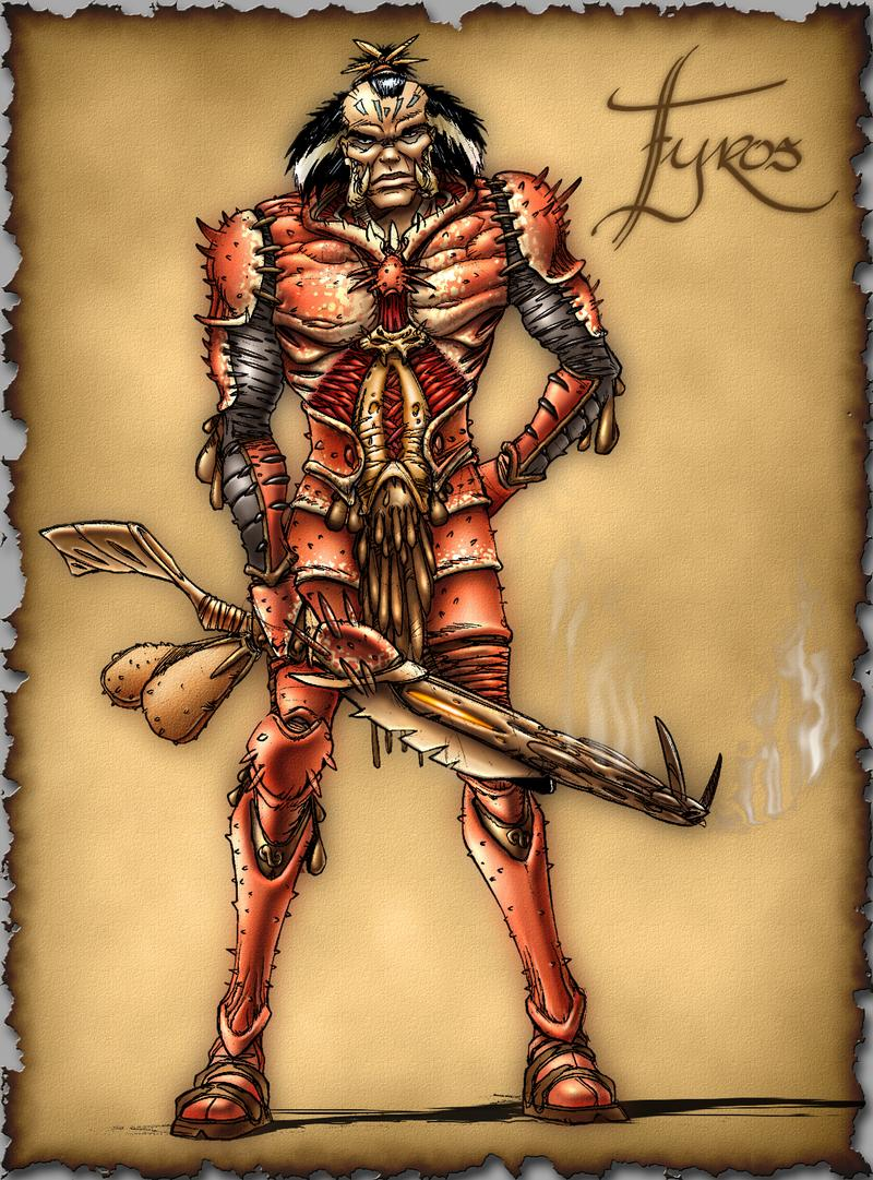 Fyros